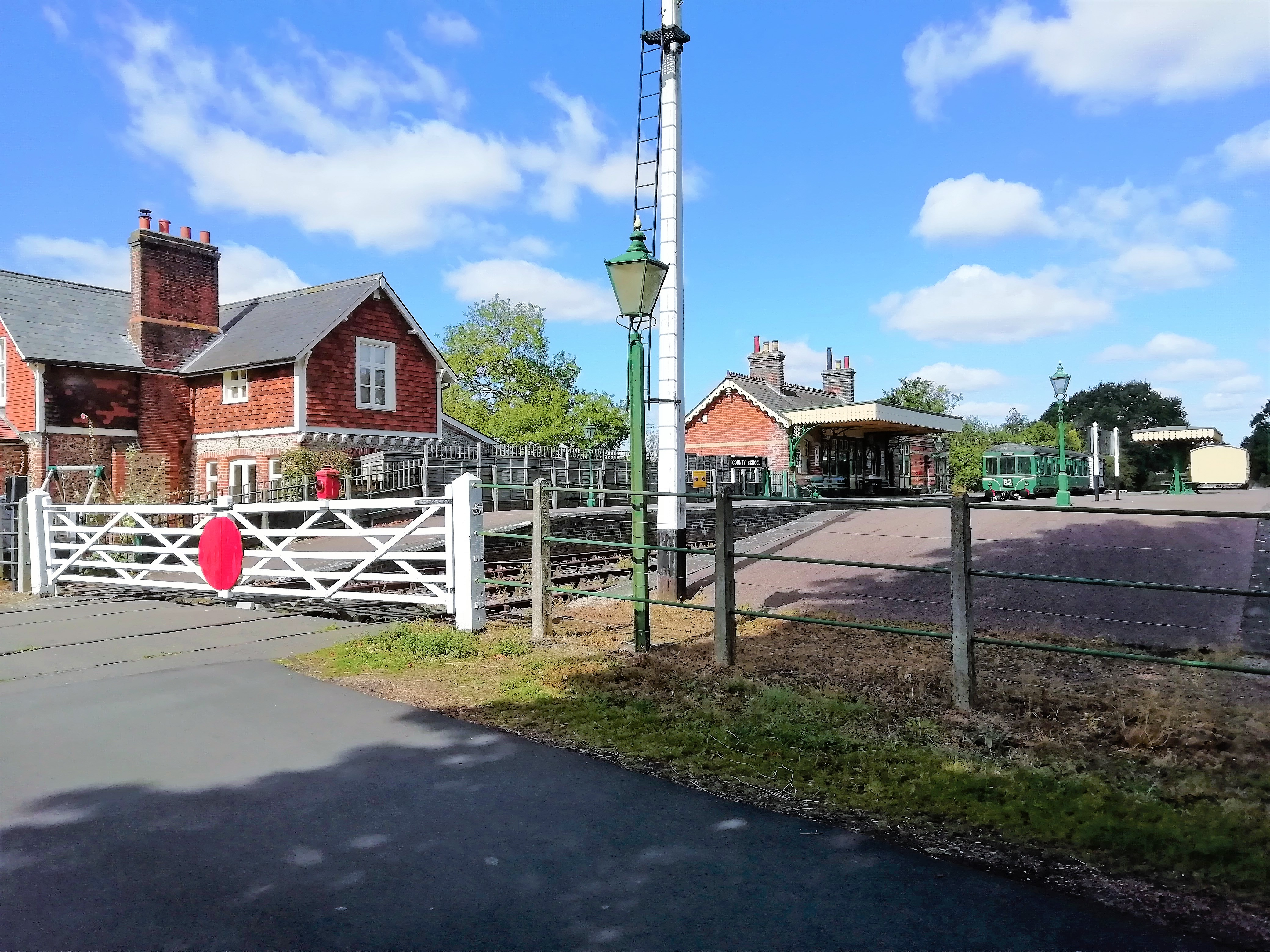 Depicted place: County School railway station